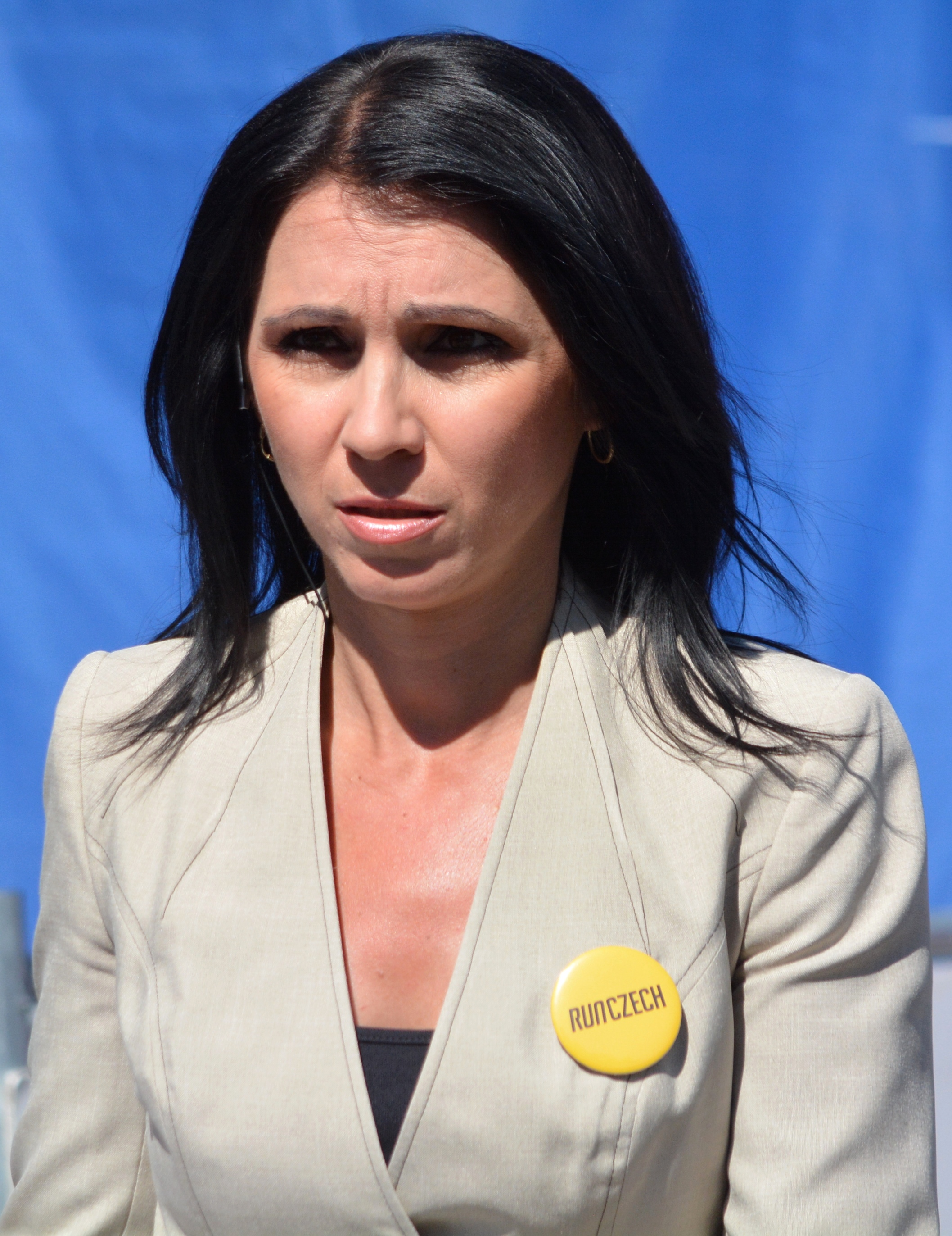 Žaneta Peřinová, Czech sport journalist